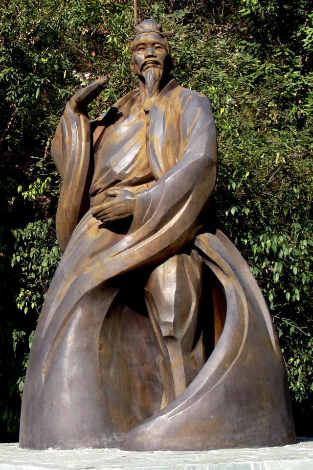 Statue of Zhang Sanfeng at Wudang Mountain. Originally from 武当山太极张三丰.JPG 中文（台灣）: 武當山逍遙谷張三丰的塑像。修改自武当山太极张三丰.JPG。